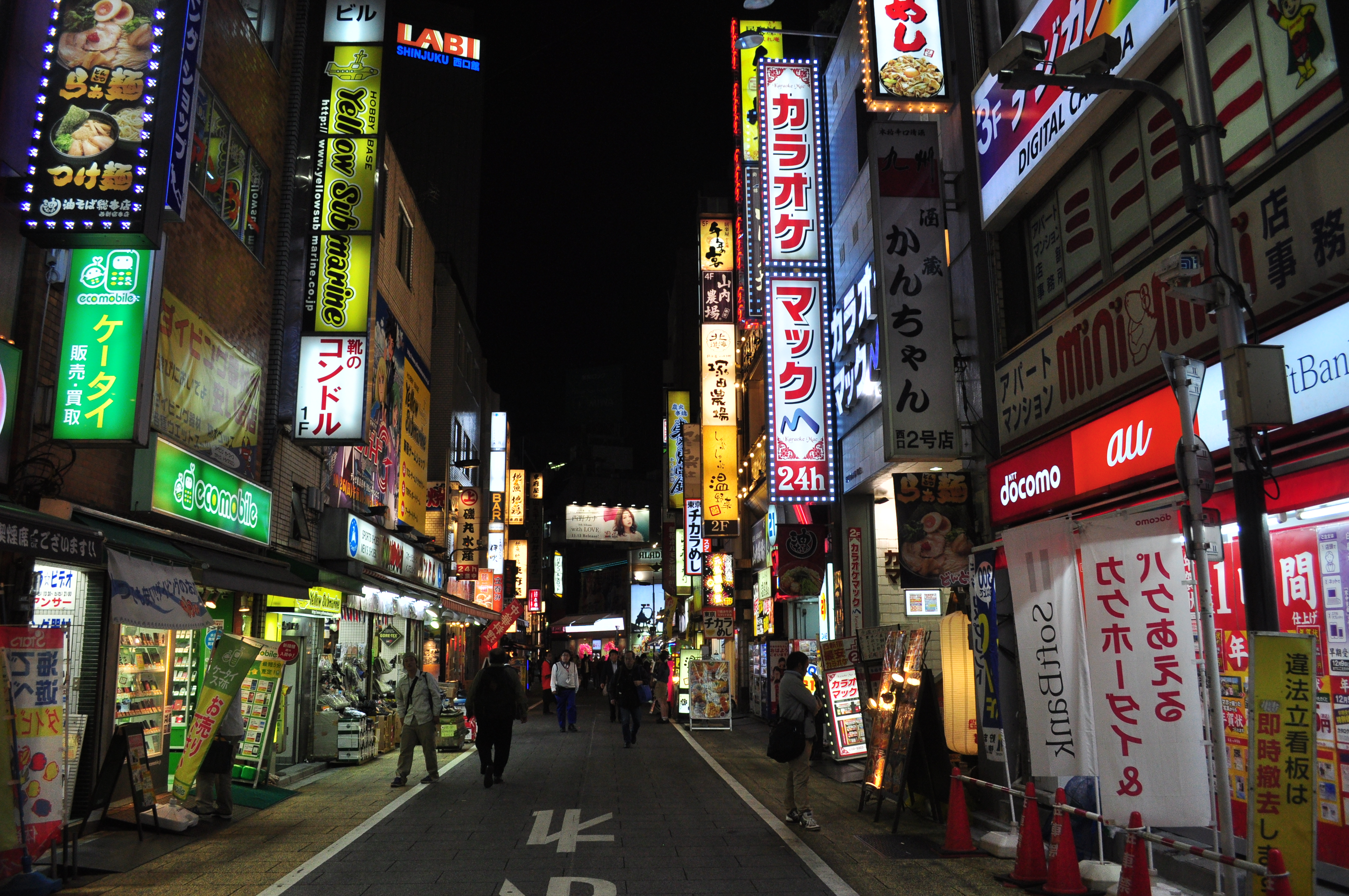 Evening in Shinjuku, Tokyo.